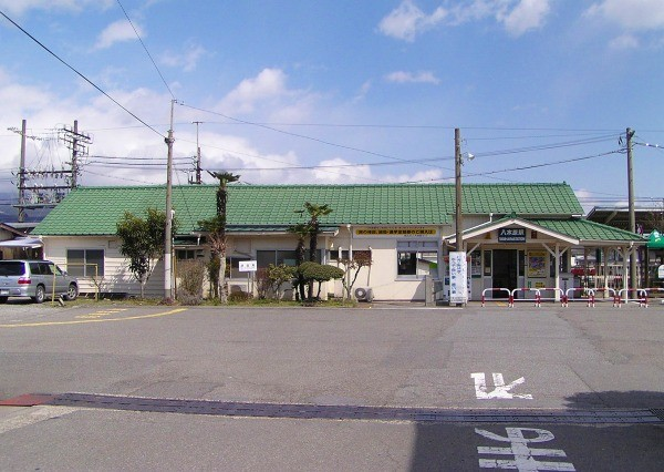 Yagihara Station of the Jōestu Line, Shibukawa, Gunma, Japan